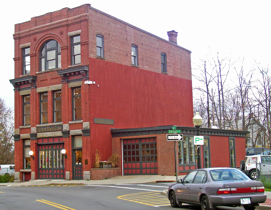 A brick building